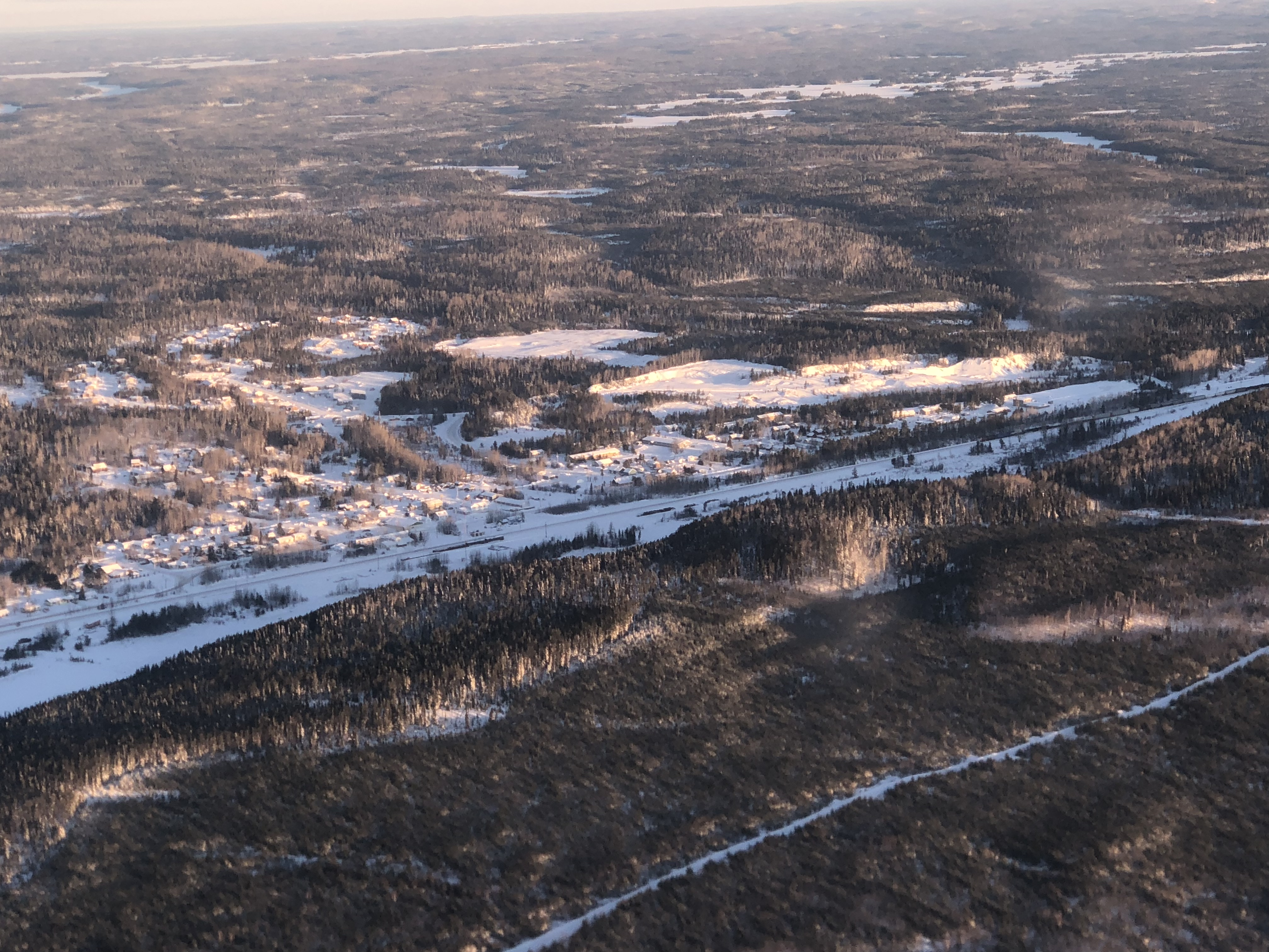 Aerial view of Armstrong in Thunder Bay District, Ontario, Canada.